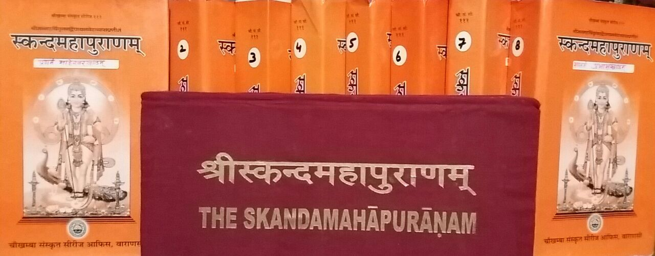 Skandamahapurana